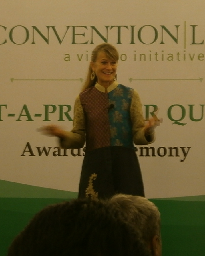 Jacqueline Novogratz, CEO of